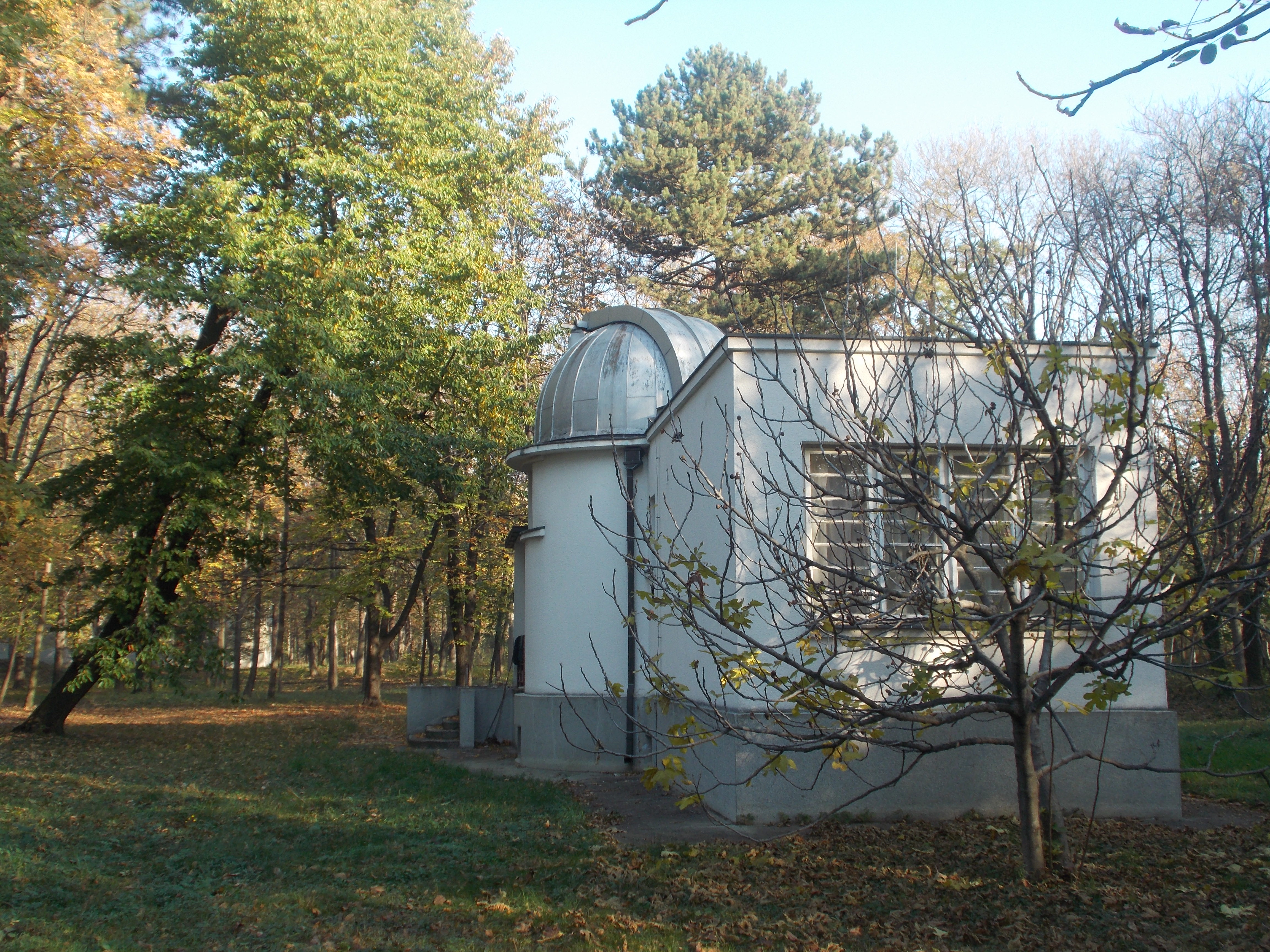 Zeiss Astrograph dome. Instrument: Zeiss Astrograph 160/800 mm. Built in 1932.